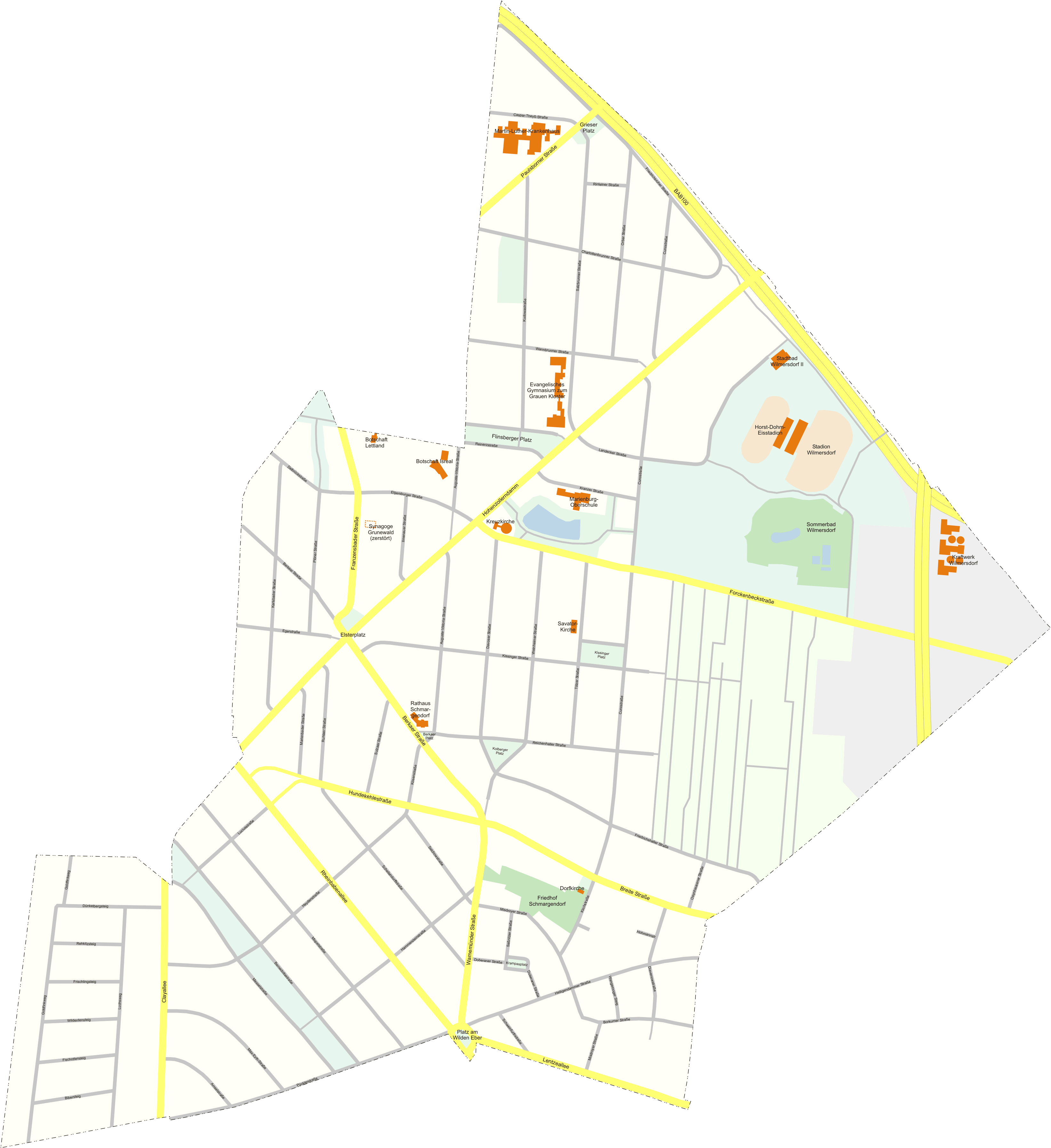 Map of Berlin-Schmargendorf